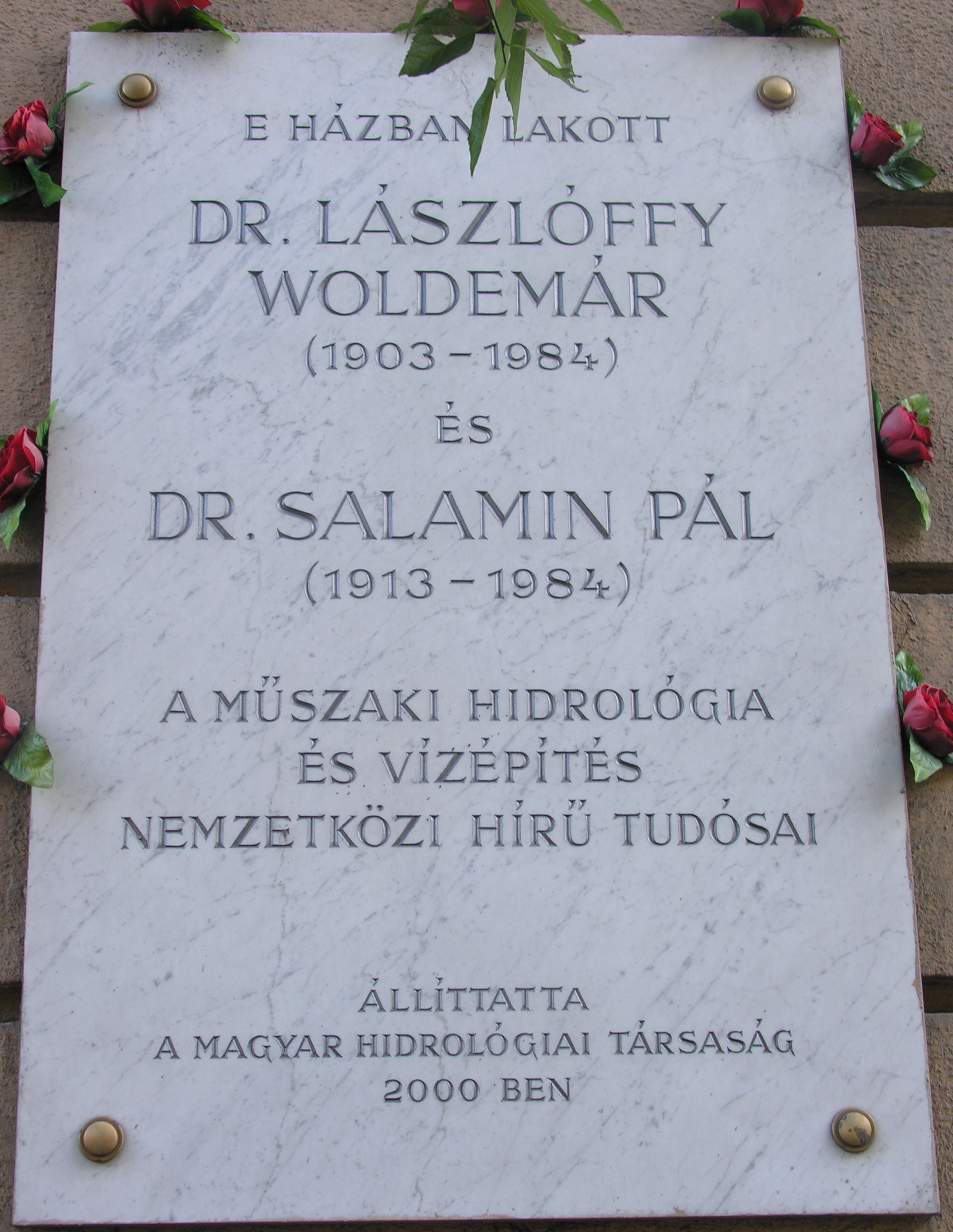 Commemorative plaque of Woldemár Lászlóffy and Pál Salamin in Budapest District II, Szilágyi Erzsébet Alley No 13-15